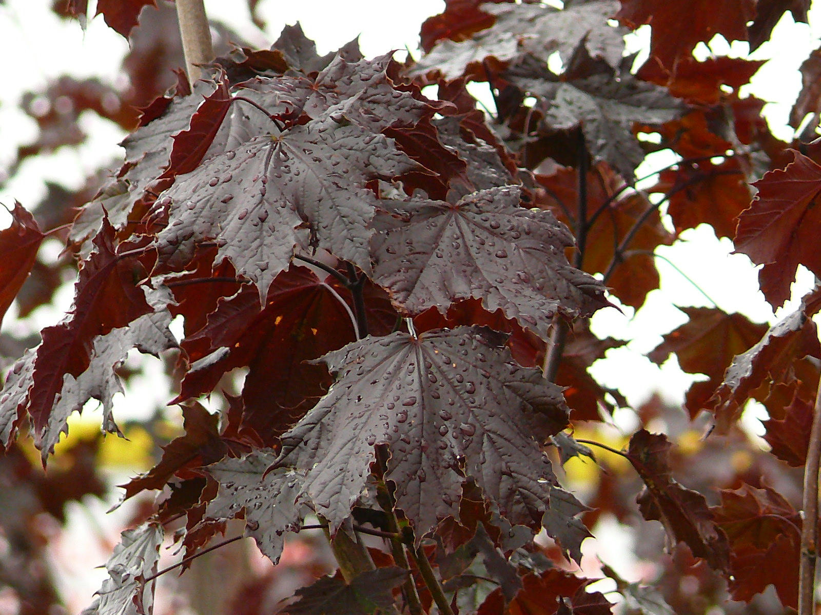 Acer platanoides 'Crimson King'